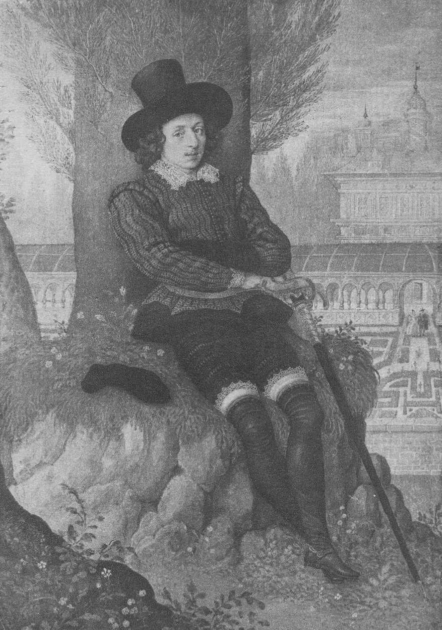 Sir Philip Sidney. Frontispiece of: Sidney Lee, Great Englishmen of the Sixteenth Century. NY: Charles Scribner's Sons, 1904.